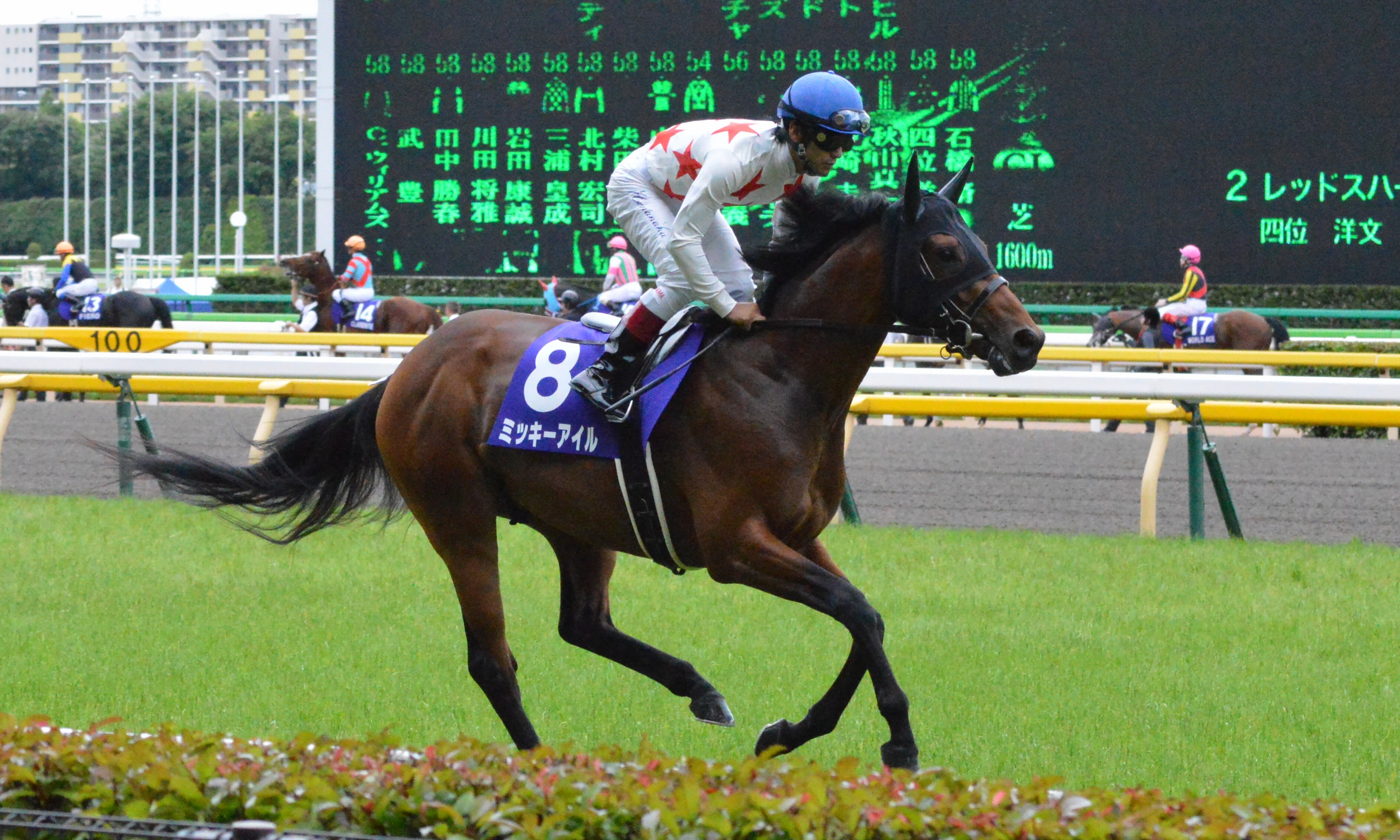 Japanese race horse Mikki Isle at Tokyo racecourse. Tokyo (JPN) 08 Jun 2014 Yasuda Kinen (Grade 1) (3yo+) (Turf) 1m Soft RankHorse NameOddsAgeWgtTrainerJockey1stJust A Way (JPN)7/10FH59-2Naosuke SugaiYoshitomi Shibata2ndGrand Prix Boss (JPN)147/1H69-2Yoshito YahagiKosei Miura3rdShonan Mighty (JPN)36/1H69-2Tomoyuki UmedaHiroshi Kitamura4th - 15th/omission16thMikki Isle (JPN)32/5C38-7Hidetaka OtonashiSuguru Hamanaka